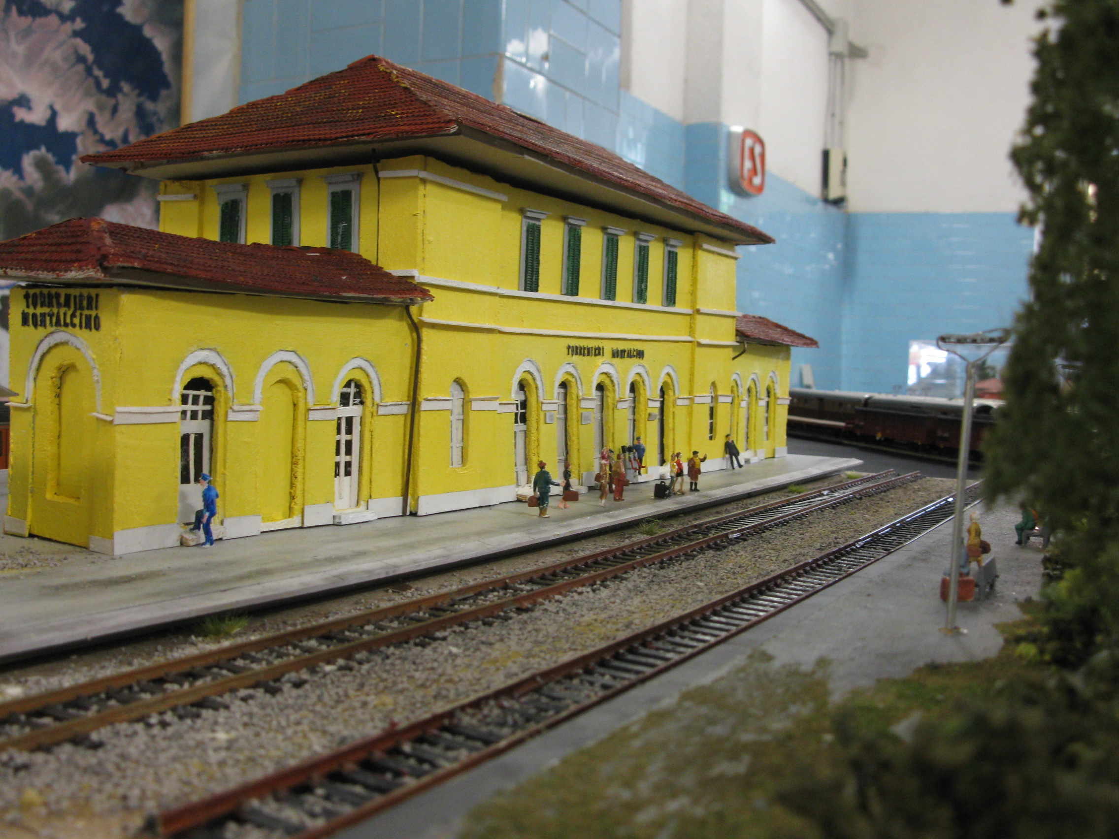 This model was shown in an exhibition during the "Festa del Treno" (train festival) in Torrenieri.